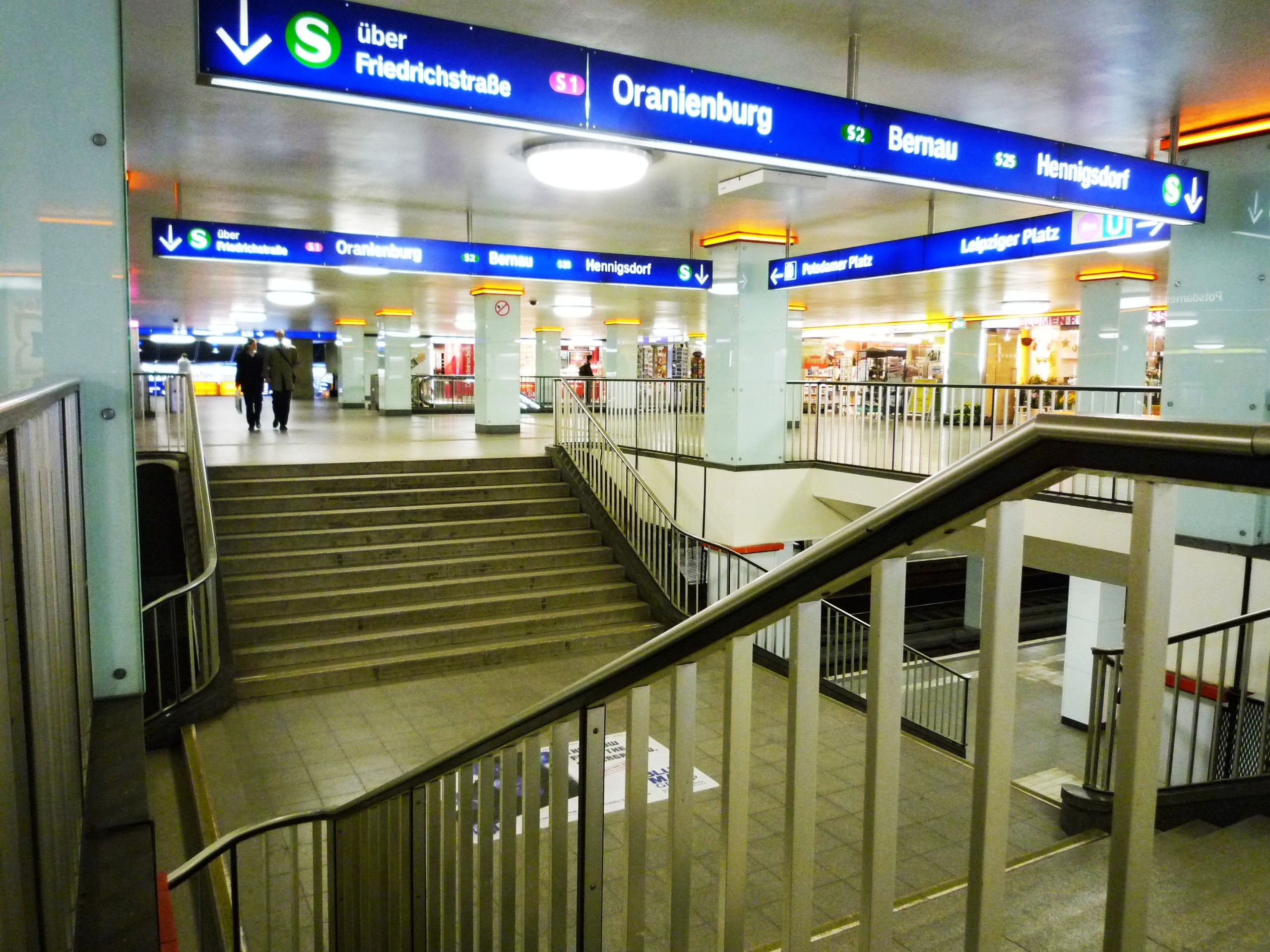 Berlin, metropolitan railway-station Potsdamer Platz. Mezzanine